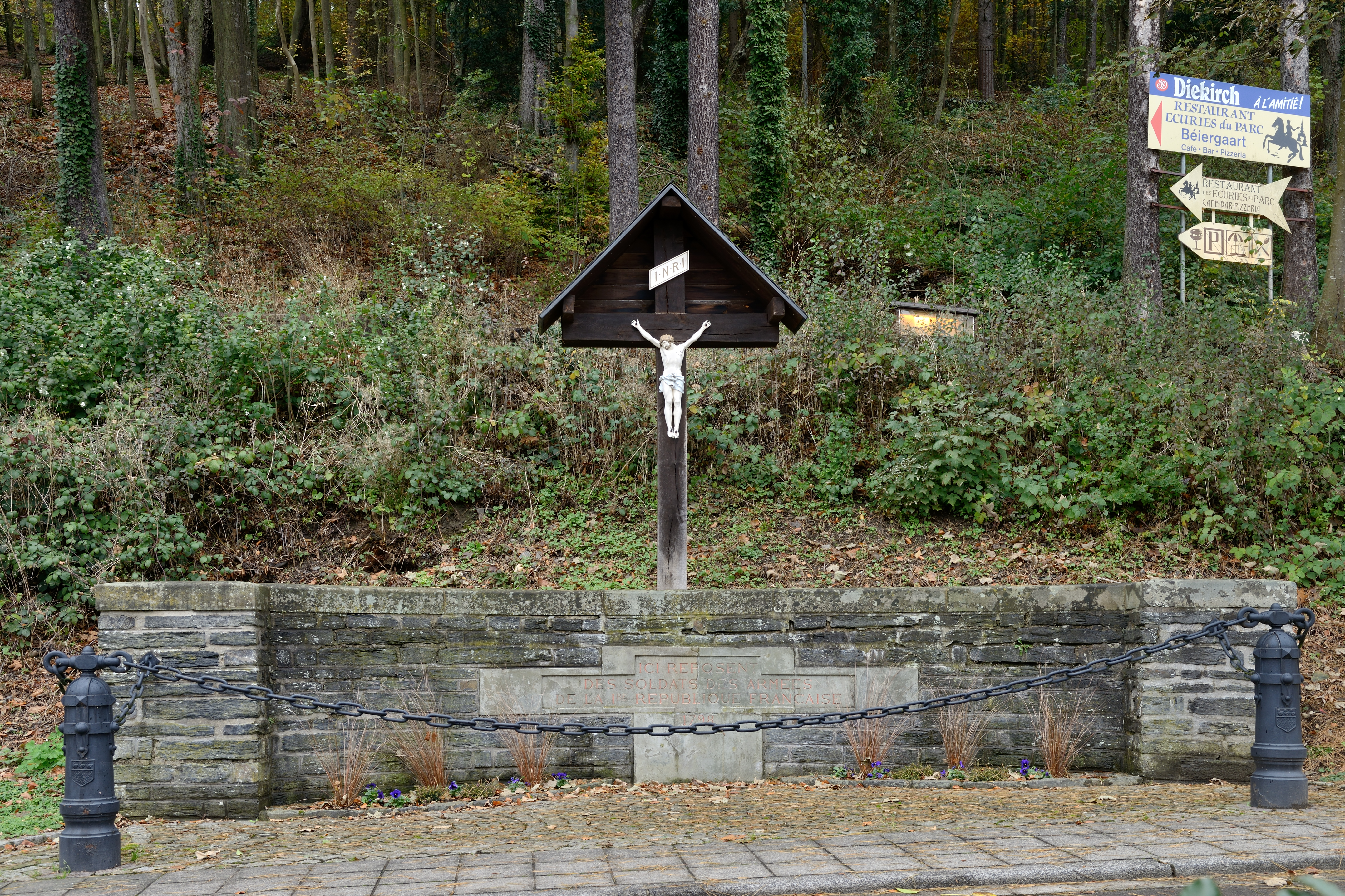 Peasants' War Memorial (1798) in Clervaux, Luxembourg. The memorial commemorates the French soldiers killed in the Peasant's War in 1798 in northern Luxembourg.